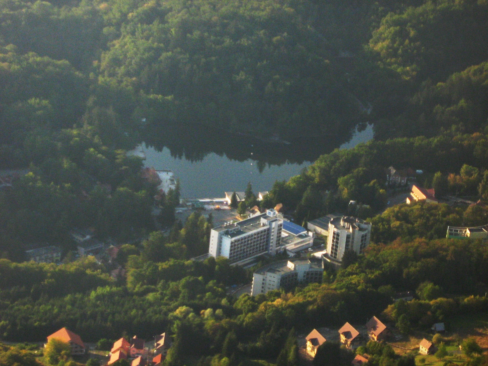 Bear lake, Sovata